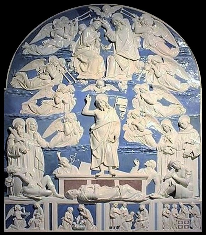 Resurrezione by Andrea della Robbia (Basilica of San Bernardino, L'Aquila, Italy)